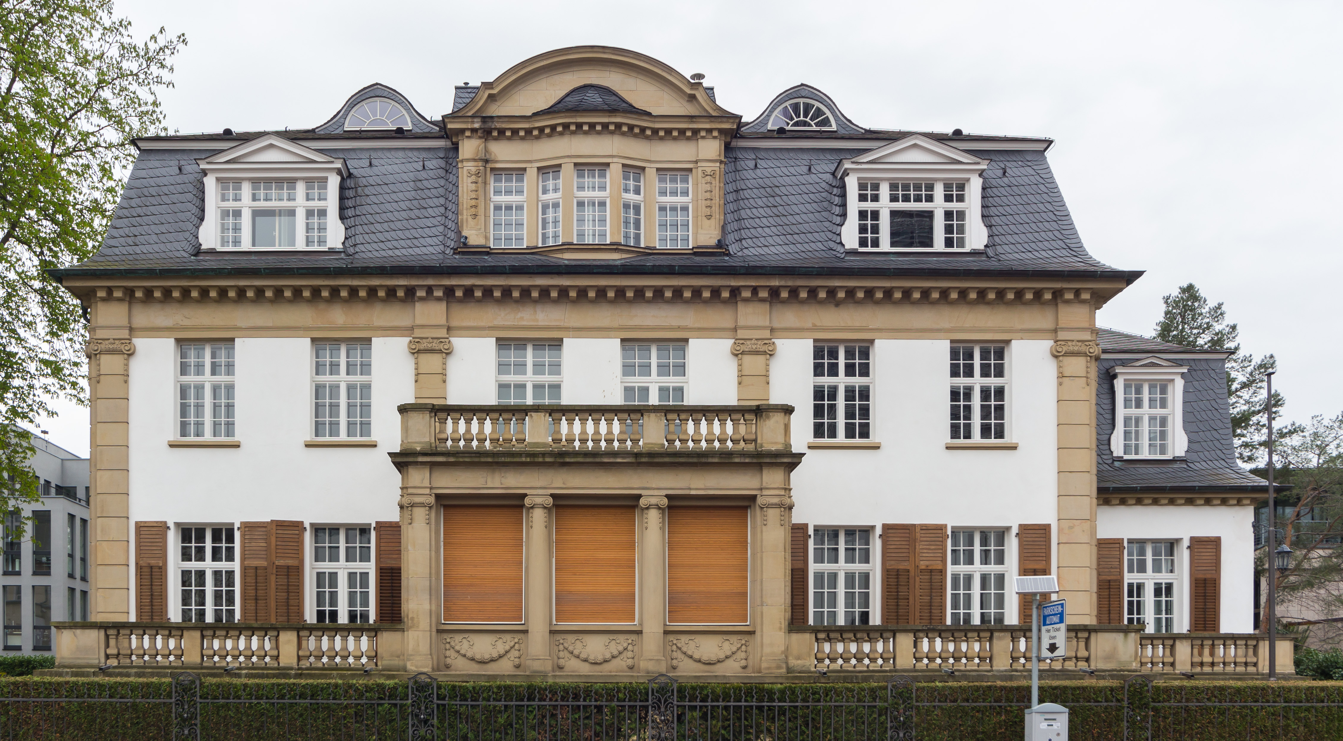 Villa Kurt-Schumacher-Straße 10, Bonn